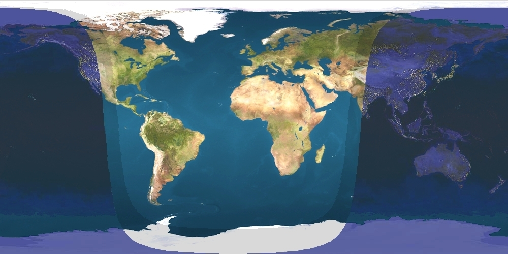 Nonscientific daylight/sunlight border map (13:00 UTC); timezone.